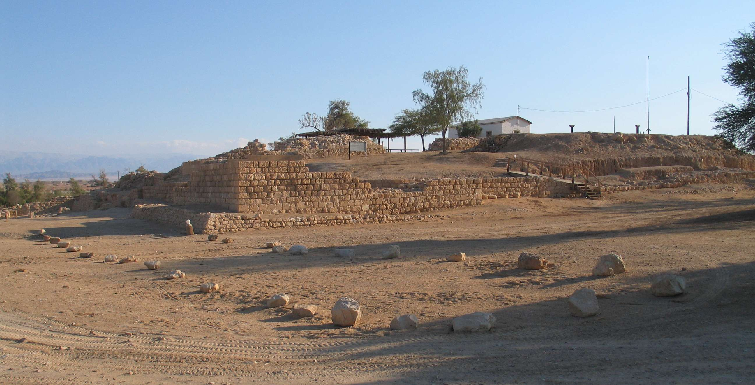 Metsad Hatseva, Israel.